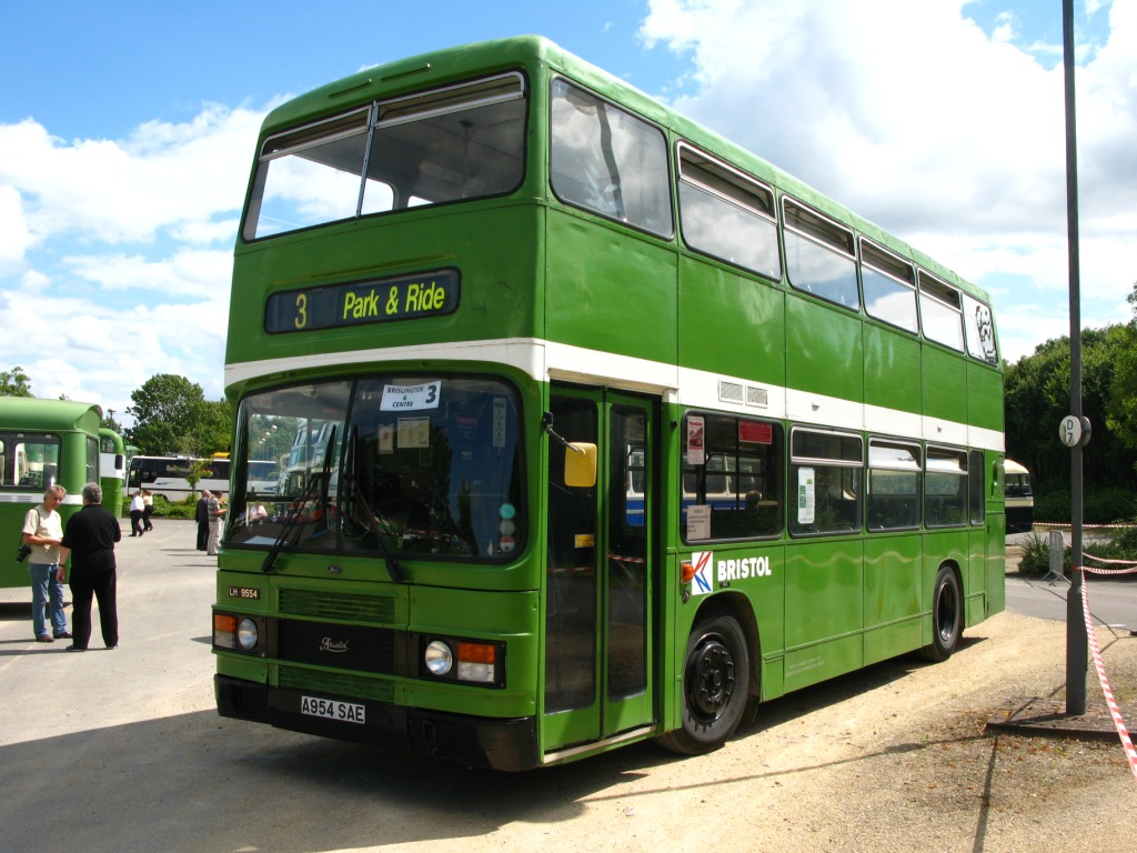 Preserved Bristol Omnibus 9554 (registration A954 SAE), a Roe-bodied Leyland Olympian. It is seen at the Bristol Vintage Bus Groups open day in 2011.